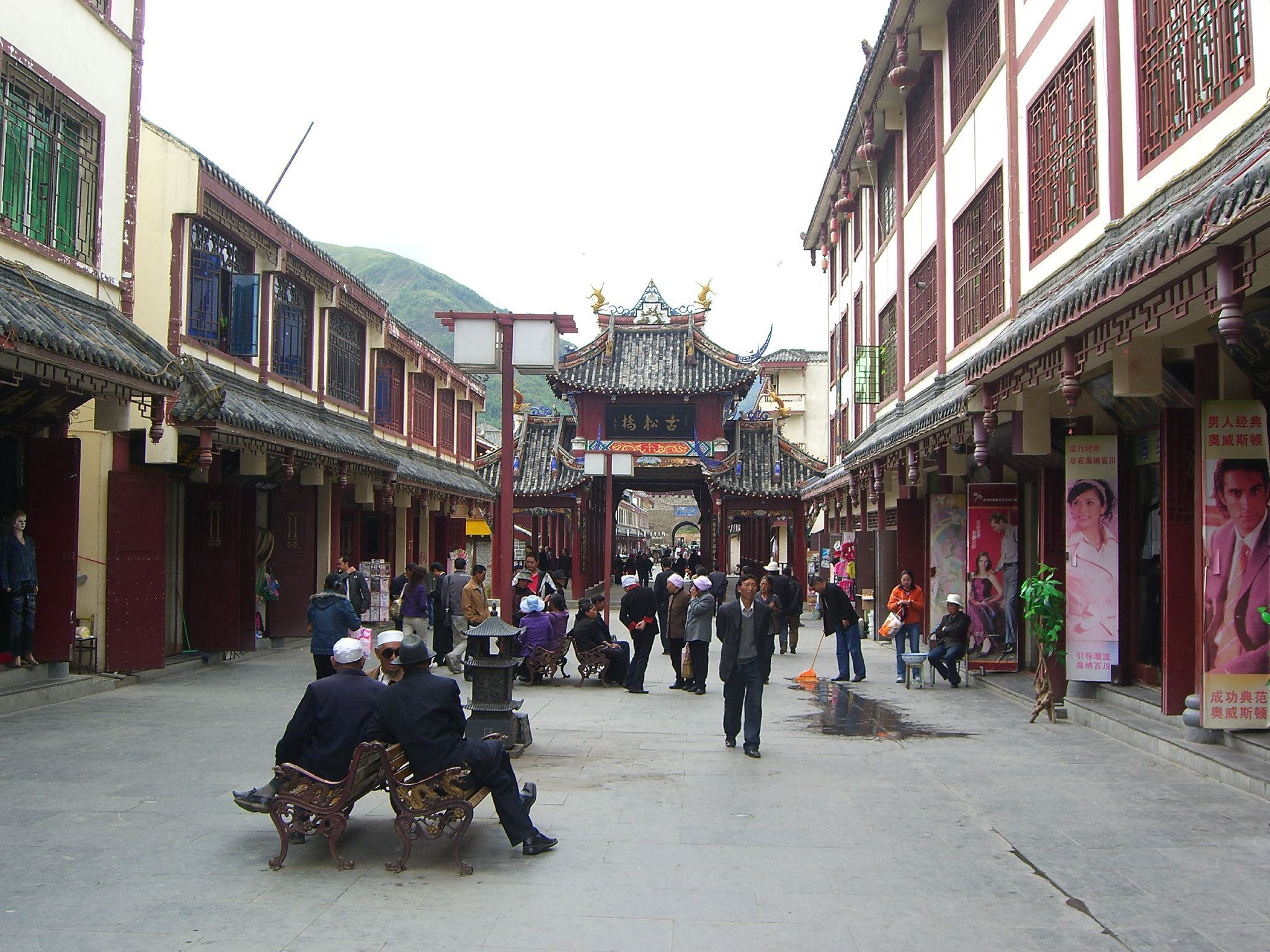 Songpan Old Town, Ngawa Tibetan and Qiang Autonomous Prefecture, Sichuan, China. In the old street, muslim (hui) people (with white hat), tibetan people (with gray hat), Qiang and Han people mix and speak together.